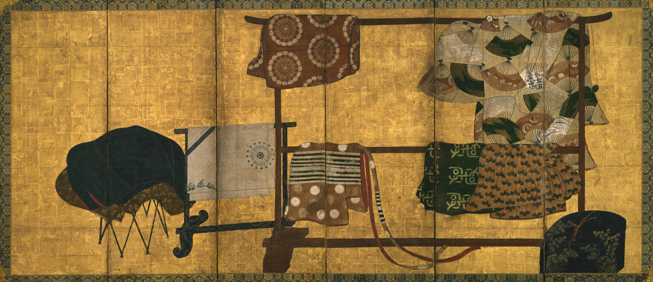 Whose Sleeves? (Tagasode), Momoyama period (1573–1615), late 16th century Japan Pair of six-panel folding screens; ink, color, and gold on gilded paper 57 1/16 x 136 9/16 in. (144.9 x 346.8 cm); folded: 65 x 26 1/2 x 5 in. (165.1 x 67.3 x 12.7 cm) In these screens, sumptuous kimonos draped casually on maki-e (decoration of gold and/or silver sprinkled powder) lacquer racks intimately evoke their unknown wearer and prompt the question, "Whose sleeves?" (Tagasode). The famous phrase turns on the notion that a person contained in his or her possessions can be a more powerful expression of personality and physical presence than a conventional likeness, and is taken from a classical poem in the Spring section of the tenth-century poetry anthology Collected Japanese Poems of Ancient and Modern Times (Kokin wakashû). The fragrance seems even more alluring than the hue, Whose sleeves have brushed past? Or would it be this plum tree blossoming here at home? Iro yori mo ka koso awaredo omohoyure tagasode fureshi ado no ume zo mo In the Momoyama (1573–1615) and Edo periods (1615–1868), screens such as these presented a popular allusion in a contemporary mode to this romantic tradition. Lively patterns of fans, waterwheels, and stylized characters are combined to create rich, decorative effects on the kosode kimono. In addition to the visual beauty implied in these detailed patterns, the different textures of the cotton and silk cloth invoke the sensation of touch. Even the absent wearer's fragrance is suggested by way of the foldable lacquer stand for scenting the kimono. Generally unsigned, tagasode screens are thought to have been painted largely by "town painters," artists whose ready-made works were sold in shops in Kyoto.